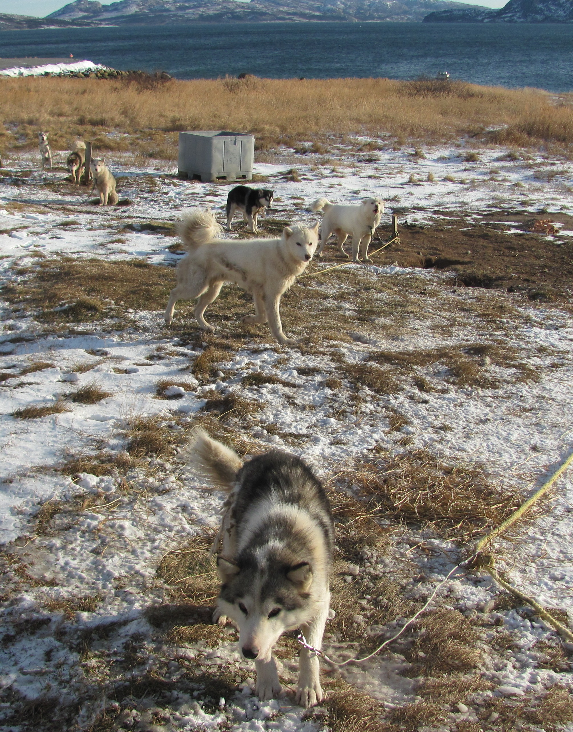 Sled team of Labrador Huskies. This photo was taken in Nain, Labrador.